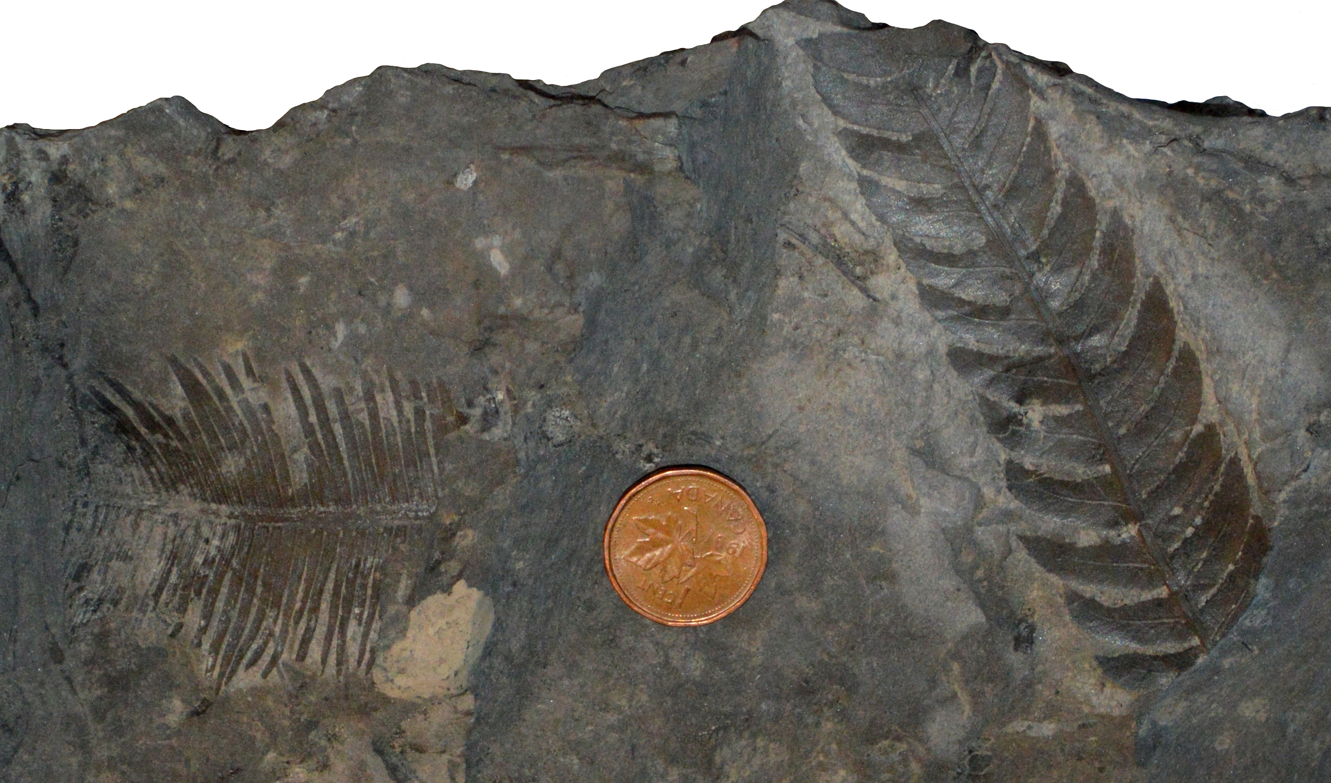 Fossils of a cycadophyte (left) and a fern (right) from an open-pit coal mine (Mist Mountain Formation, Late Jurassic to Early Cretaceous), near Sparwood, British Columbia.